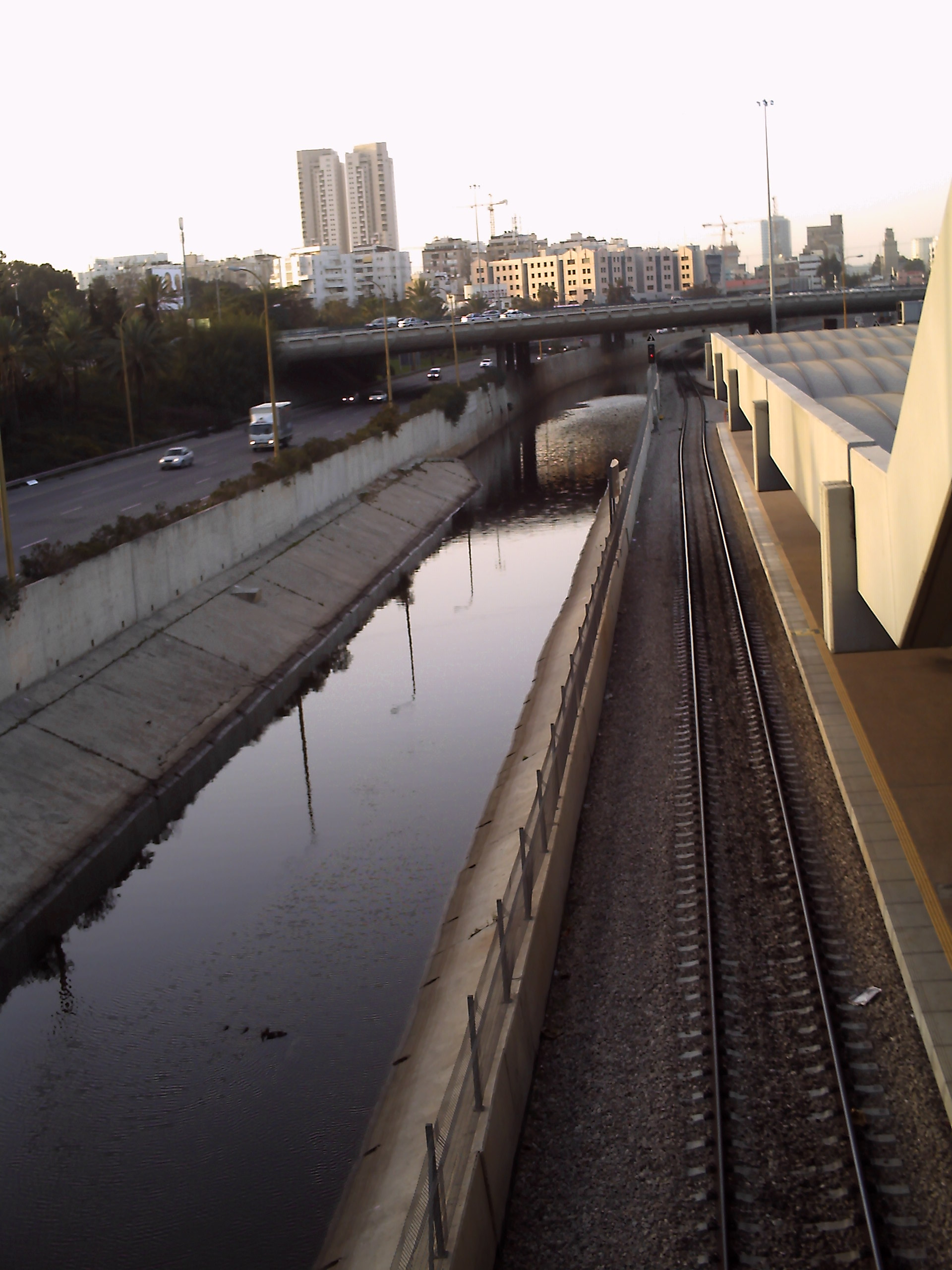 Ayalon River flowing alongside the Ayalon Freeway at the Border between Ramat Gan and Tel Aviv